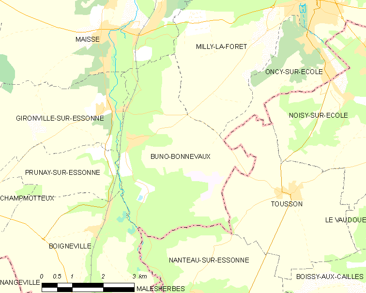 Map of French municipality Buno-Bonnevaux